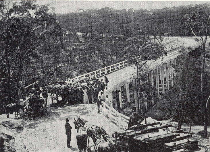 The official opening of the old De Burghs Bridge across Lane Cove River in Sydney, New South Wales, Australia. Named in honour of Ernest de Burgh, the bridge was officially opened on 23 February 1901 and was replaced, in 1967, by a bridge of the same name.